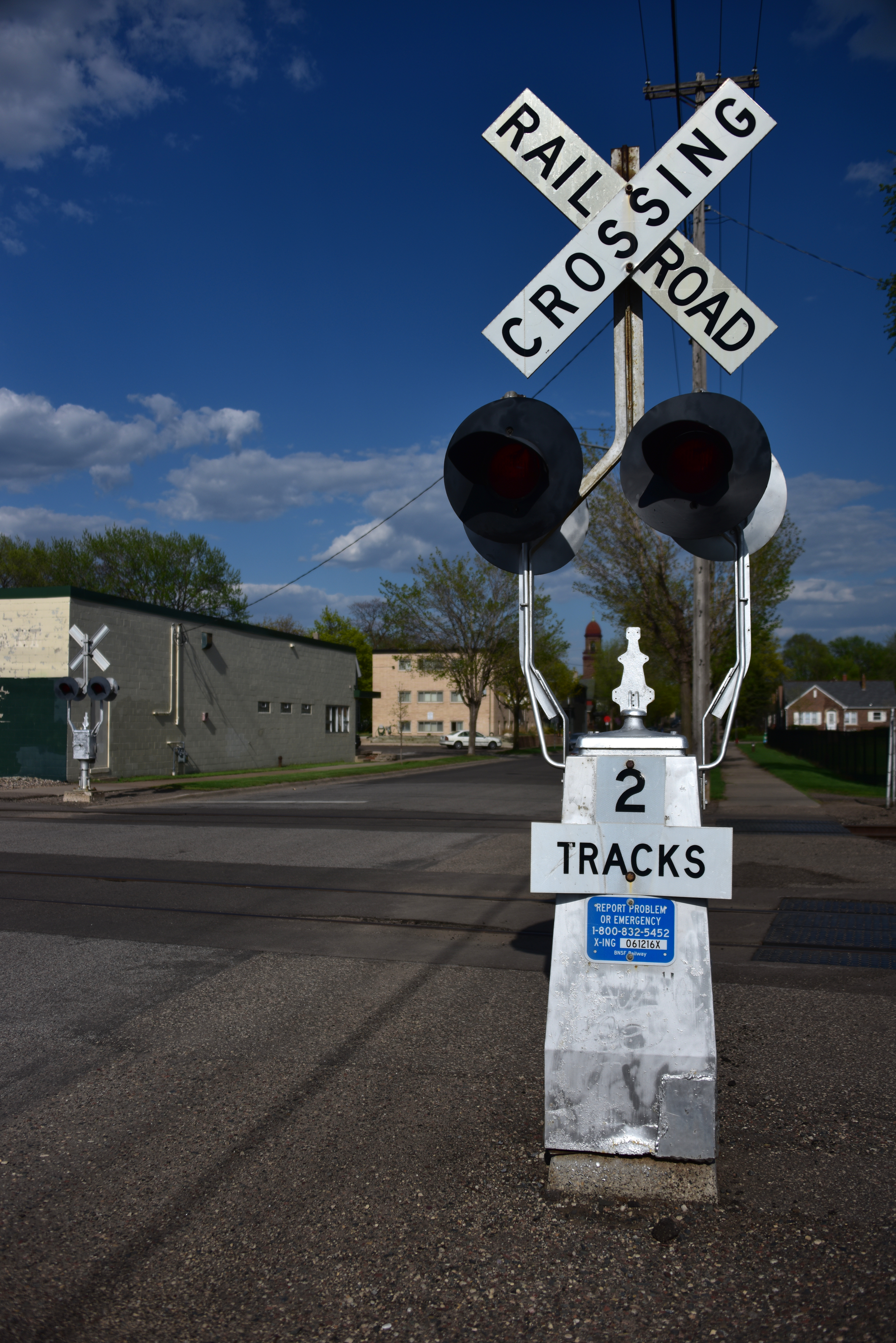 These railroad-crossing signals near the California Building in Northeast Minneapolis were built by the Griswold Signal Company of Minneapolis. Until very recently, they featured stop signs that rotated out to face the auto traffic when a train was coming.